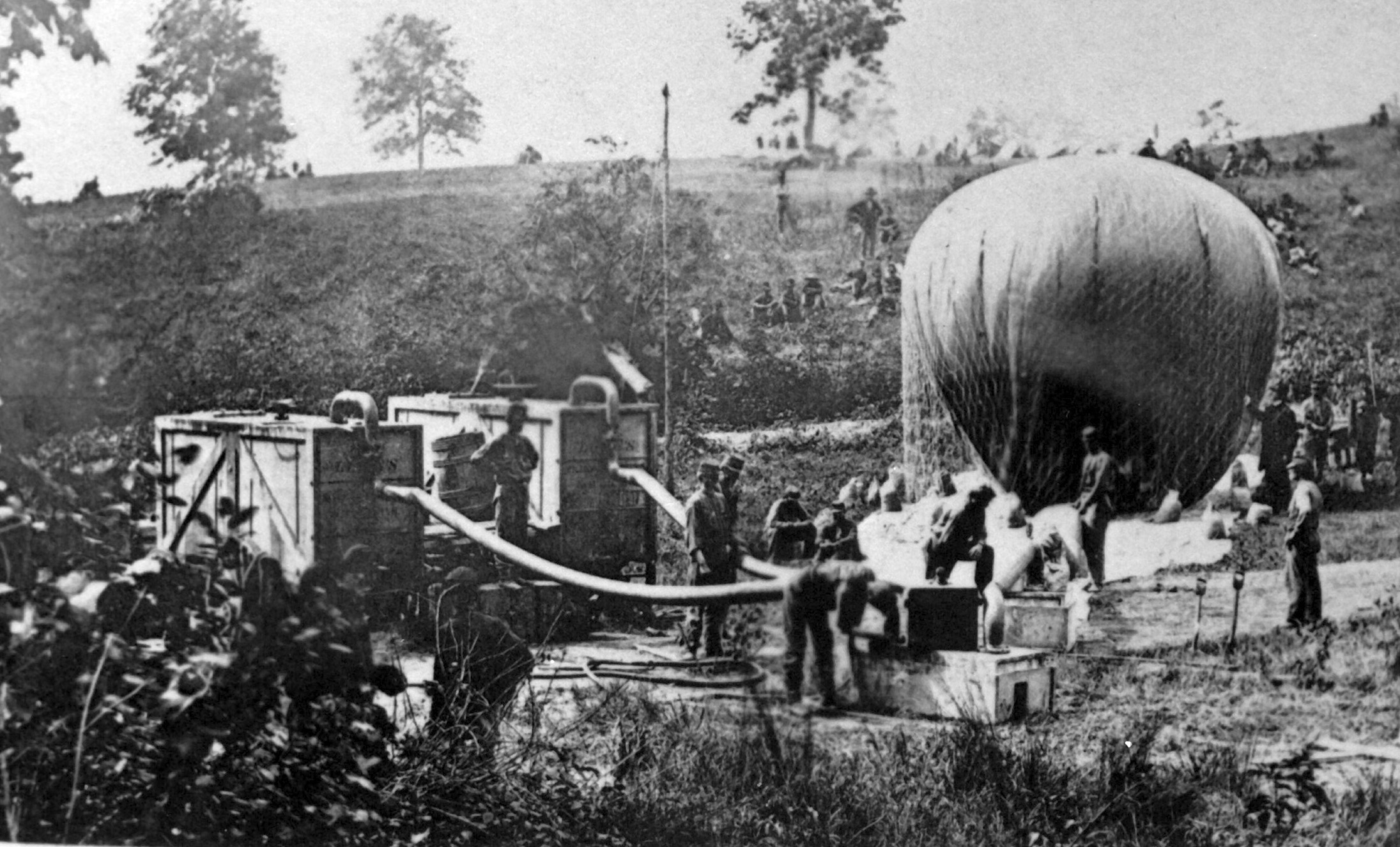 View of balloon ascension. HD-SN-99-01887